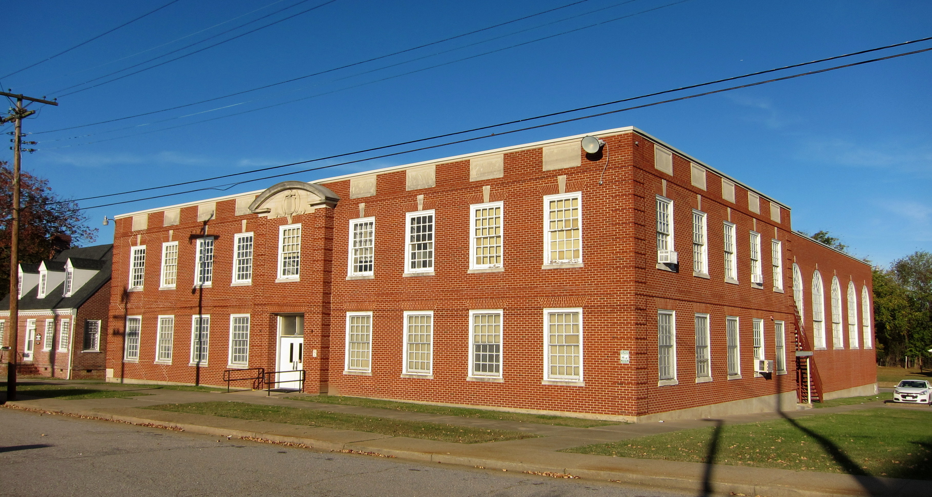 The former Home Economics Cottage (left, built 1930s) and Gymnasium (built 1949) at the historic Hopewell High School Complex, in Hopewell, Virginia.